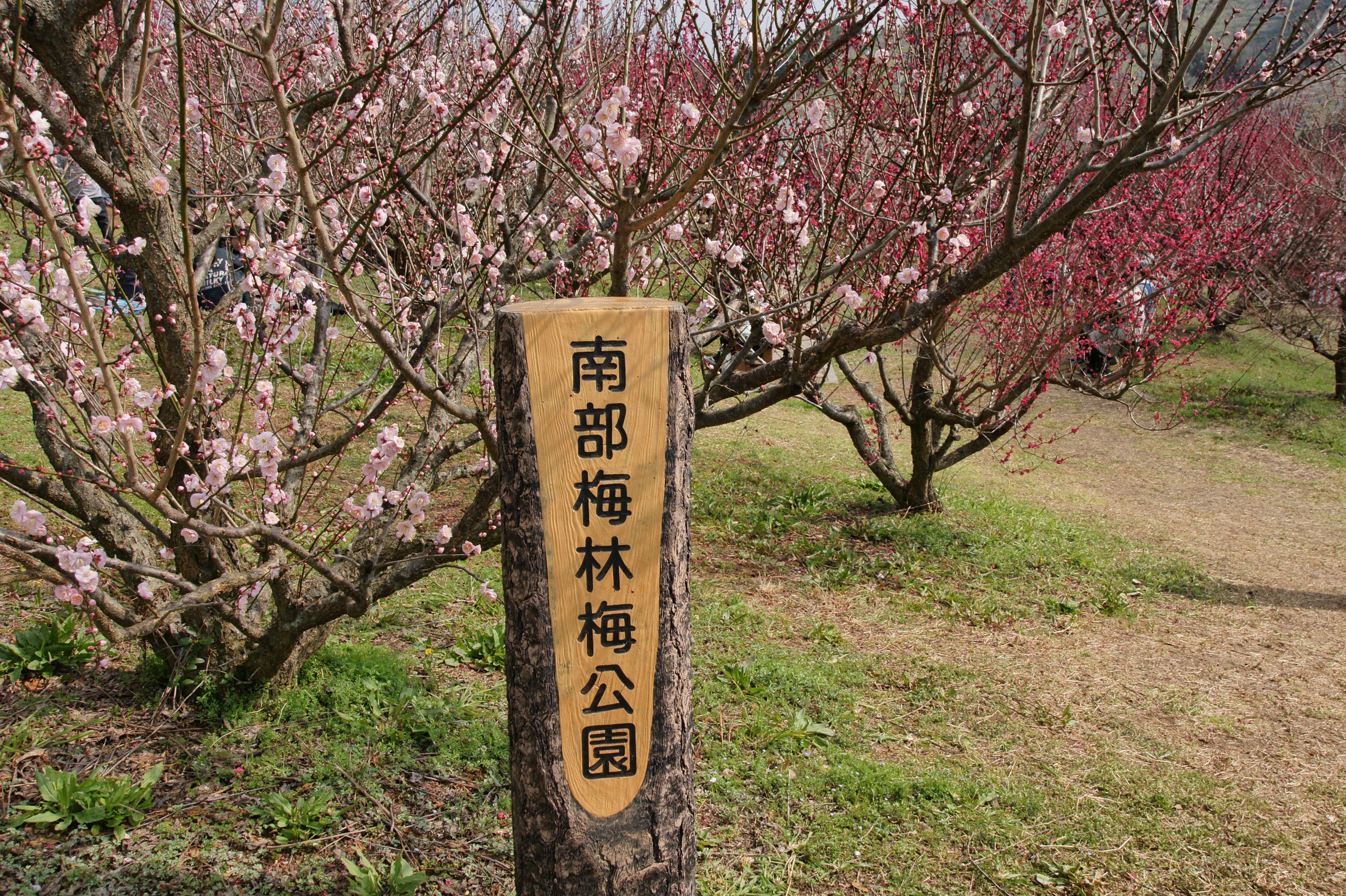 Minabe Bairin, Minabe, Wakayama prefecture, Japan